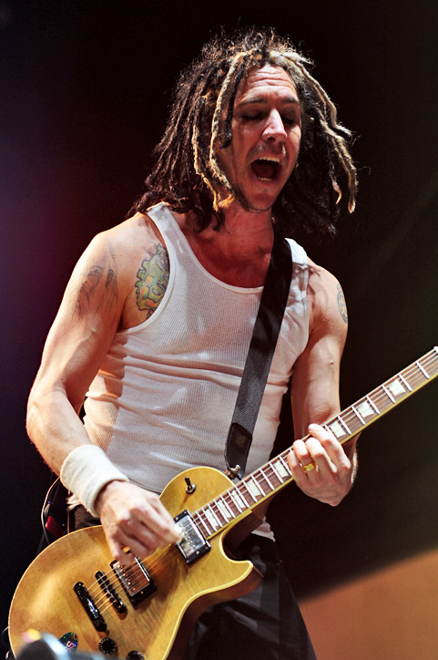 No Sleep Til Festival 2010